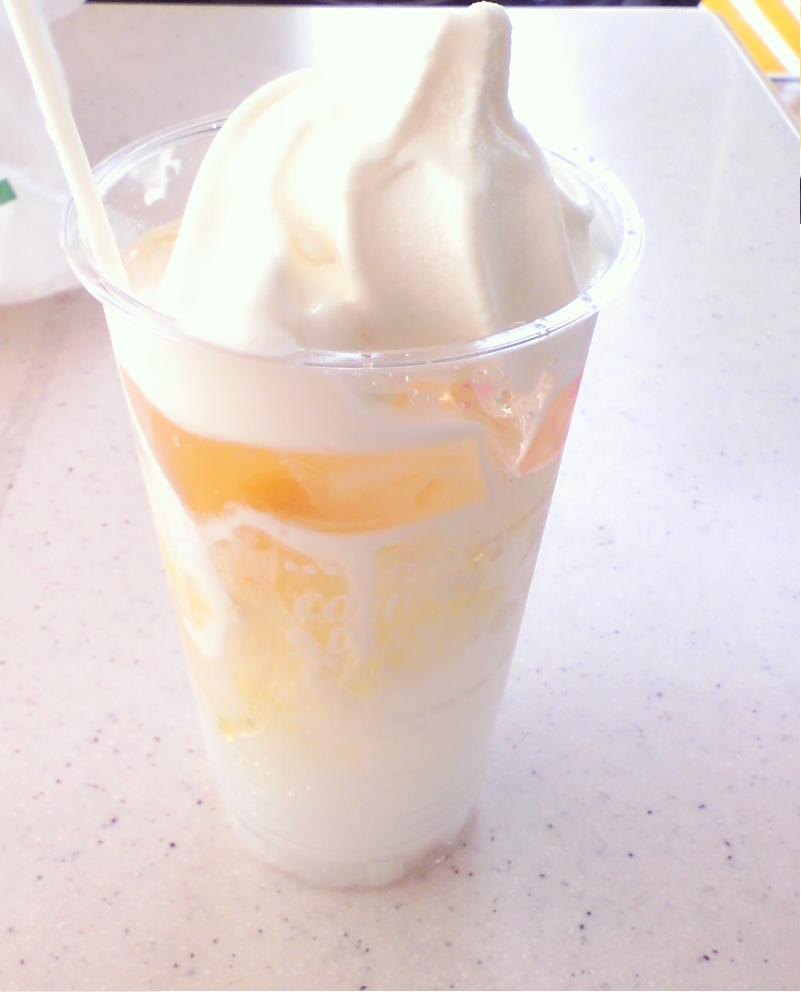 This is a halo-halo made by Japanese convenience store, Ministop.